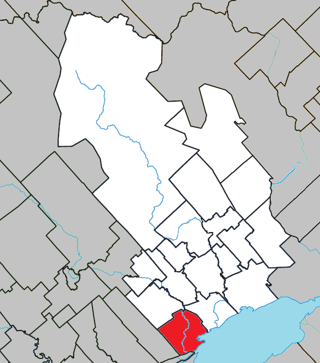 Location of Maskinongé, Quebec within Maskinongé Regional County Municipality.